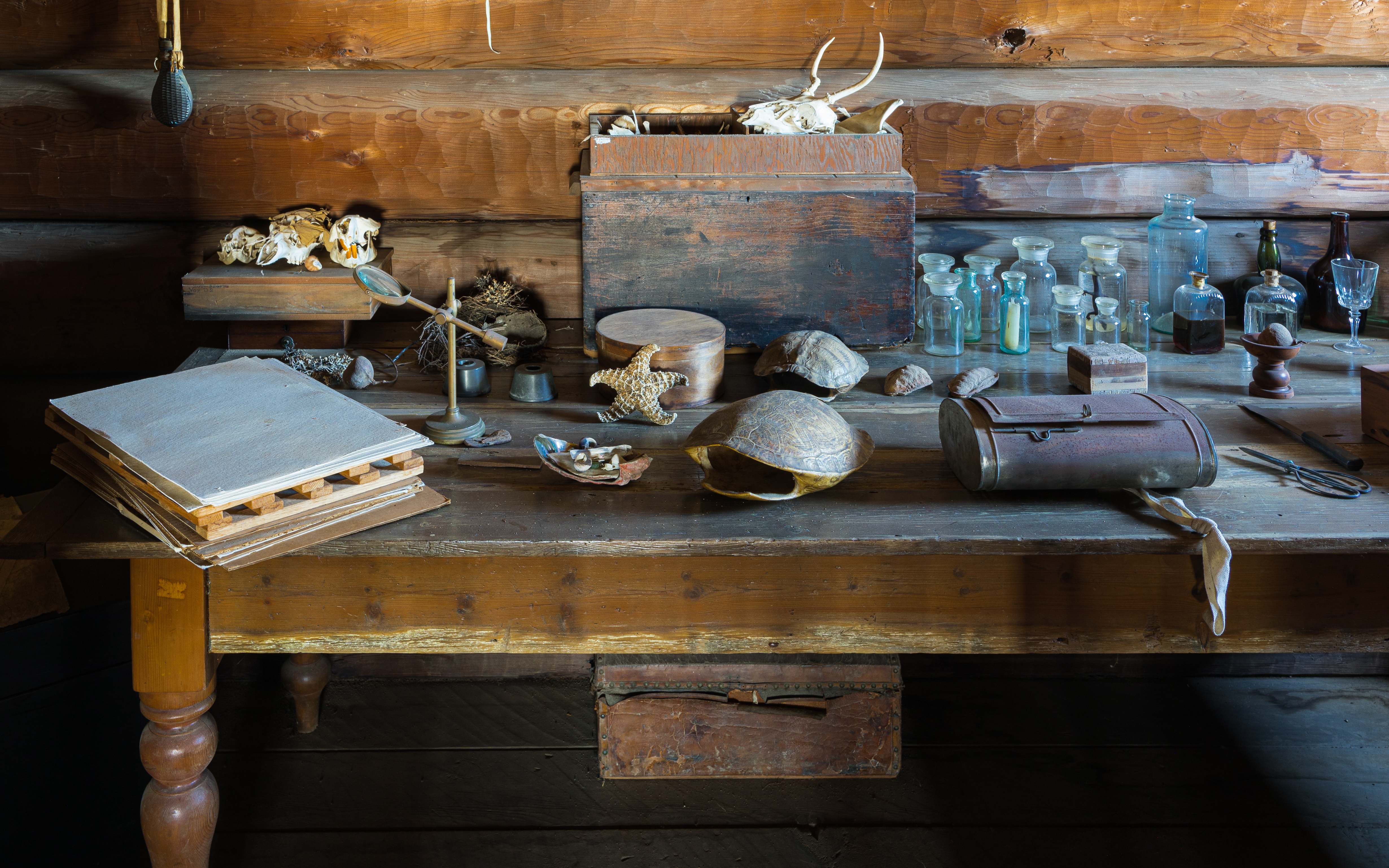 Reconstructed study of Ilya Voznesensky at Fort Ross in February 2020